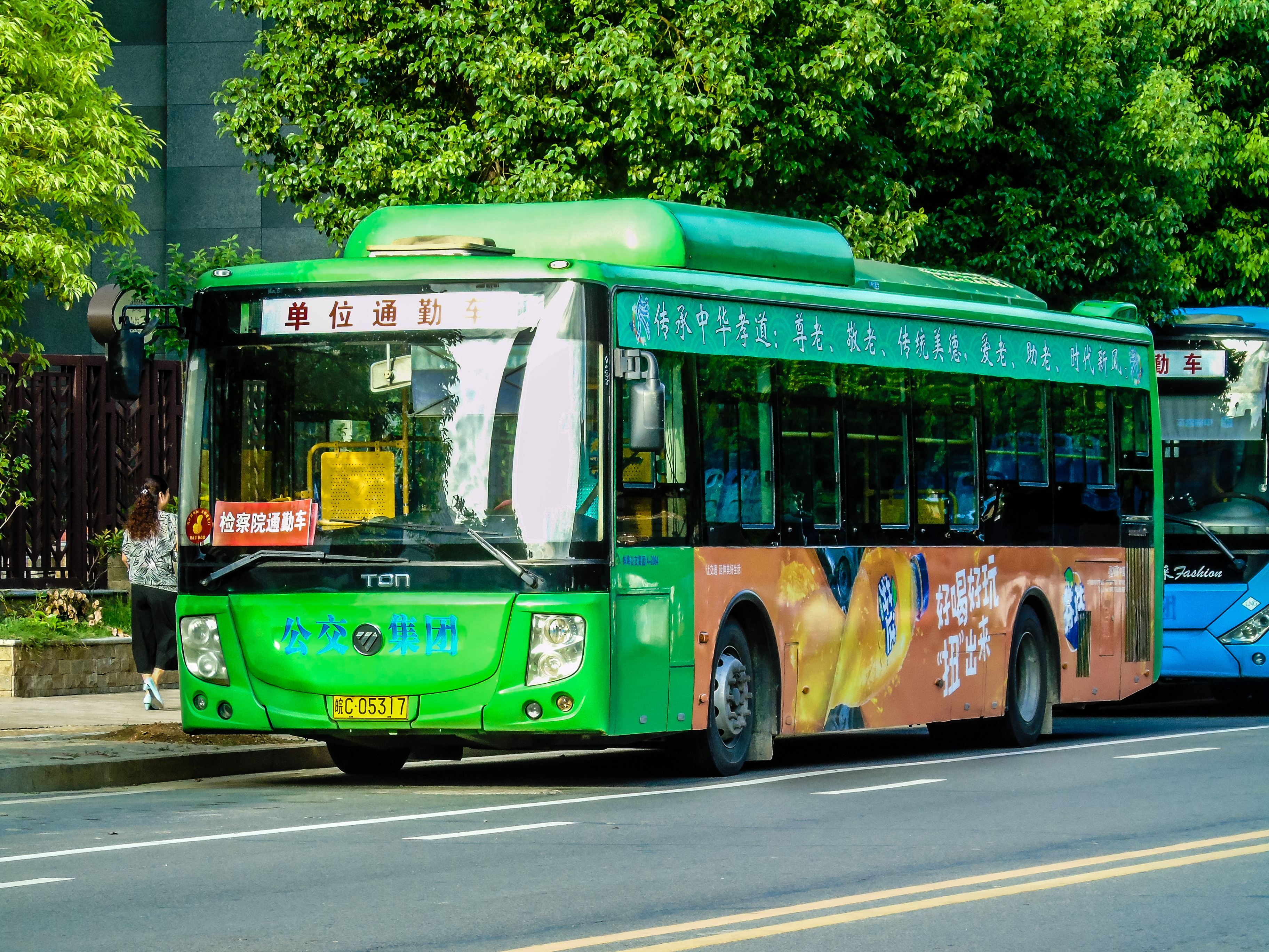 Bengbu Bus Regular bus 2